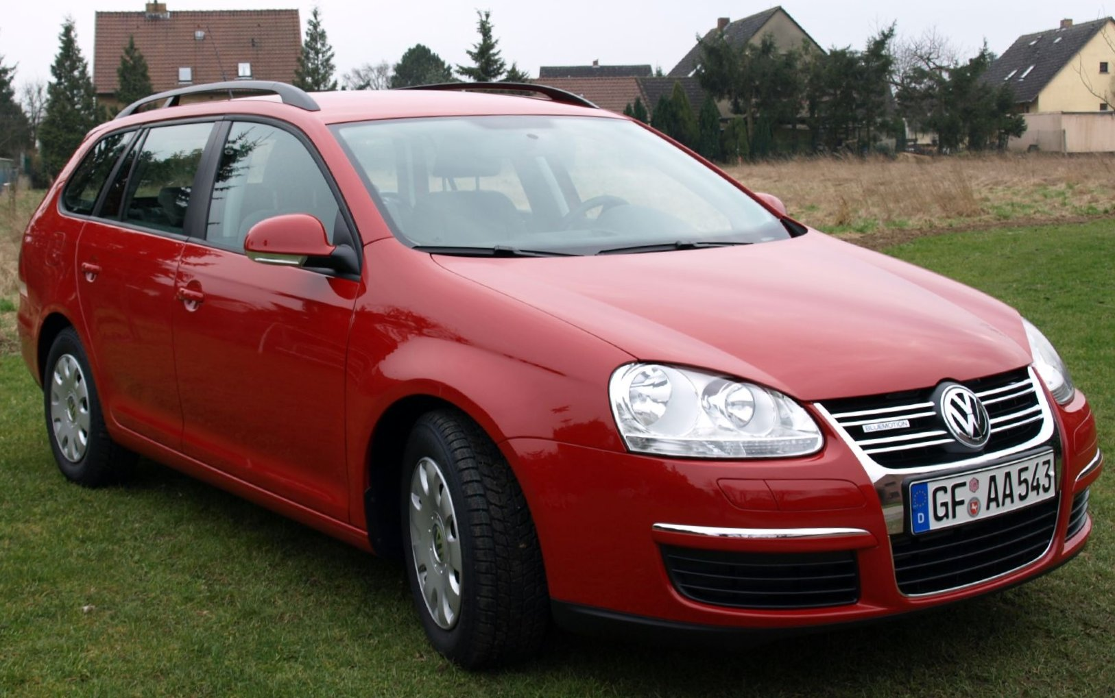 Golf V Variant BlueMotion in SalsaRed